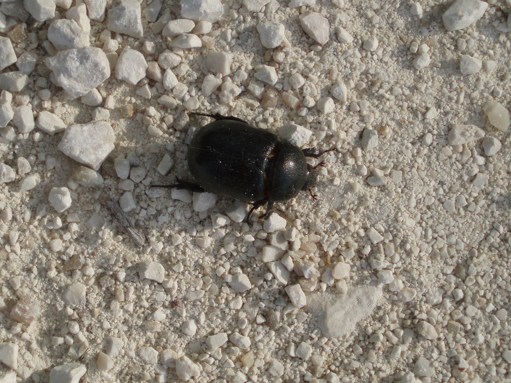 Adult beetle Hybosorus roei (Hybosoridae).